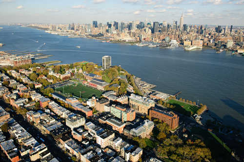 A wide aerial image of the Stevens Institute of Technology campus in Hoboken, New Jersey, with the Hudson River and Manhattan in the background